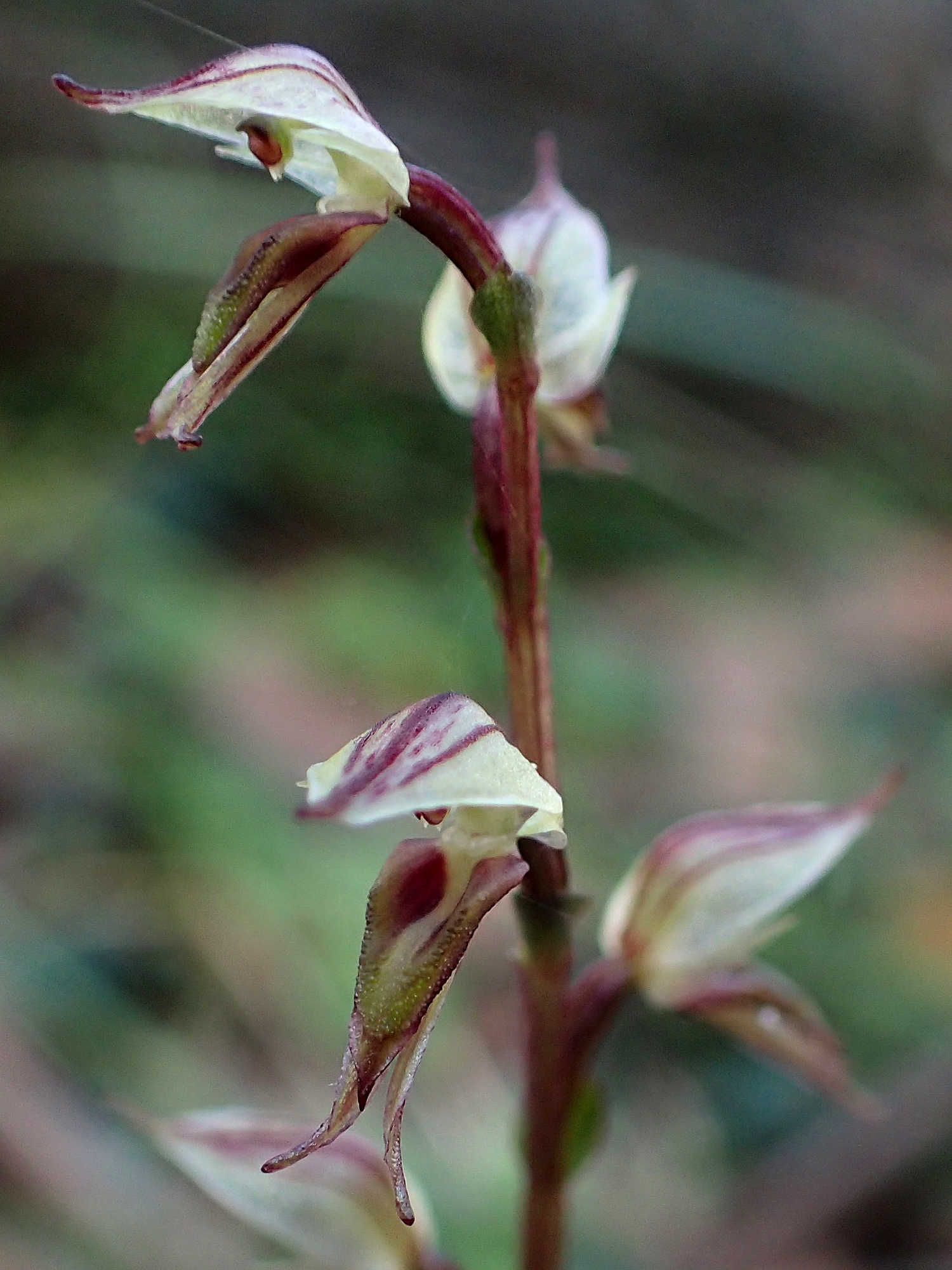 Acianthus apprimus syn. of Acianthus fornicatus growing near Ebor